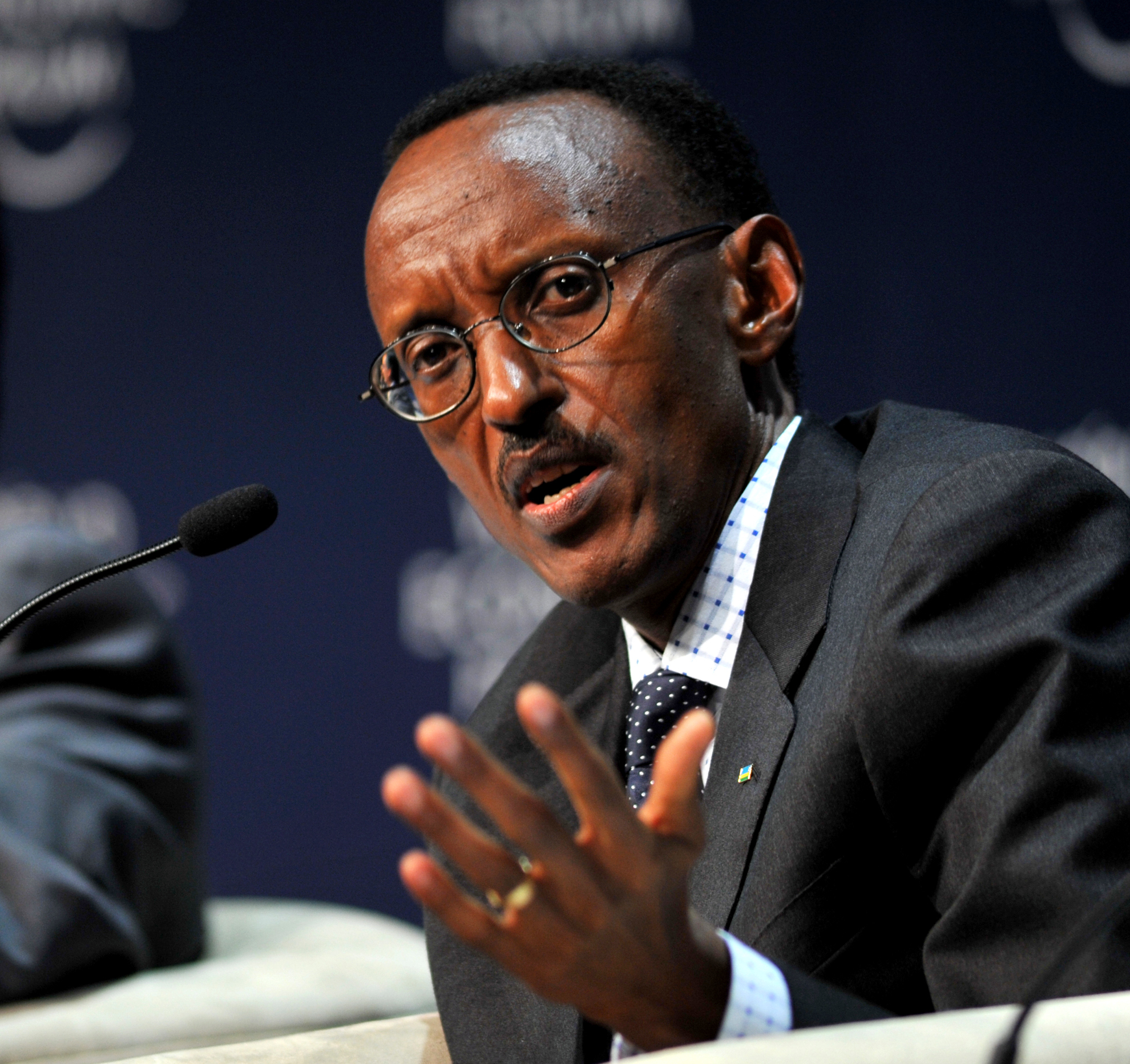 CAPE TOWN/SOUTH AFRICA, 11JUN2009 -Paul Kagame, President of Rwanda and Harish Manwani, President, Asia, Africa, Central and Eastern Europe, Unilever, United Kingdom, at the Plenary on Africa as the World's potential Breadbasket at the World Economic Forum on Africa 2009 in Cape Town, South Africa, June 11, 2009